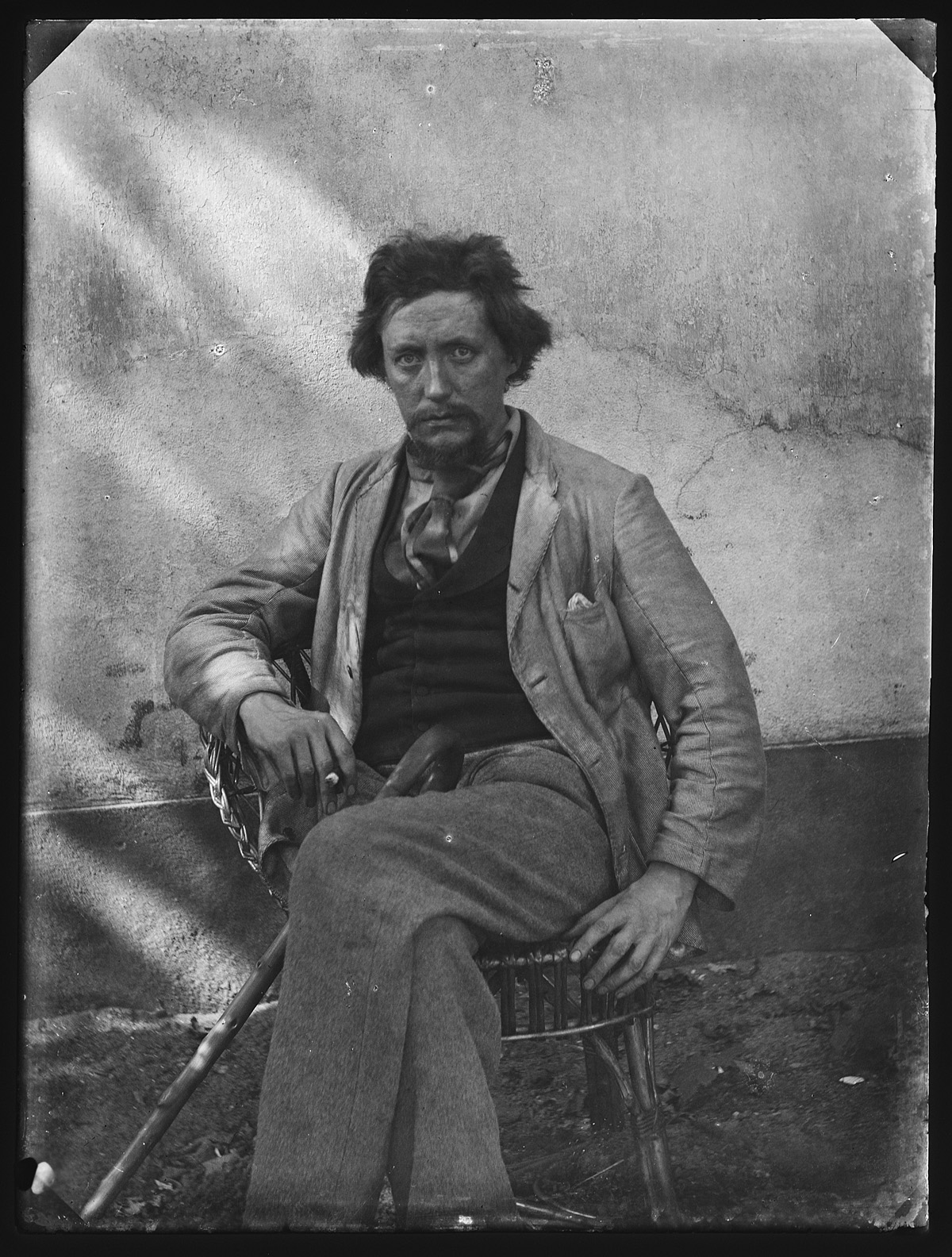 Dutch poet Willem Kloos (1859-1936) in Ede, August 1894. (Ref.: Vergeer 1985, pag. 157)